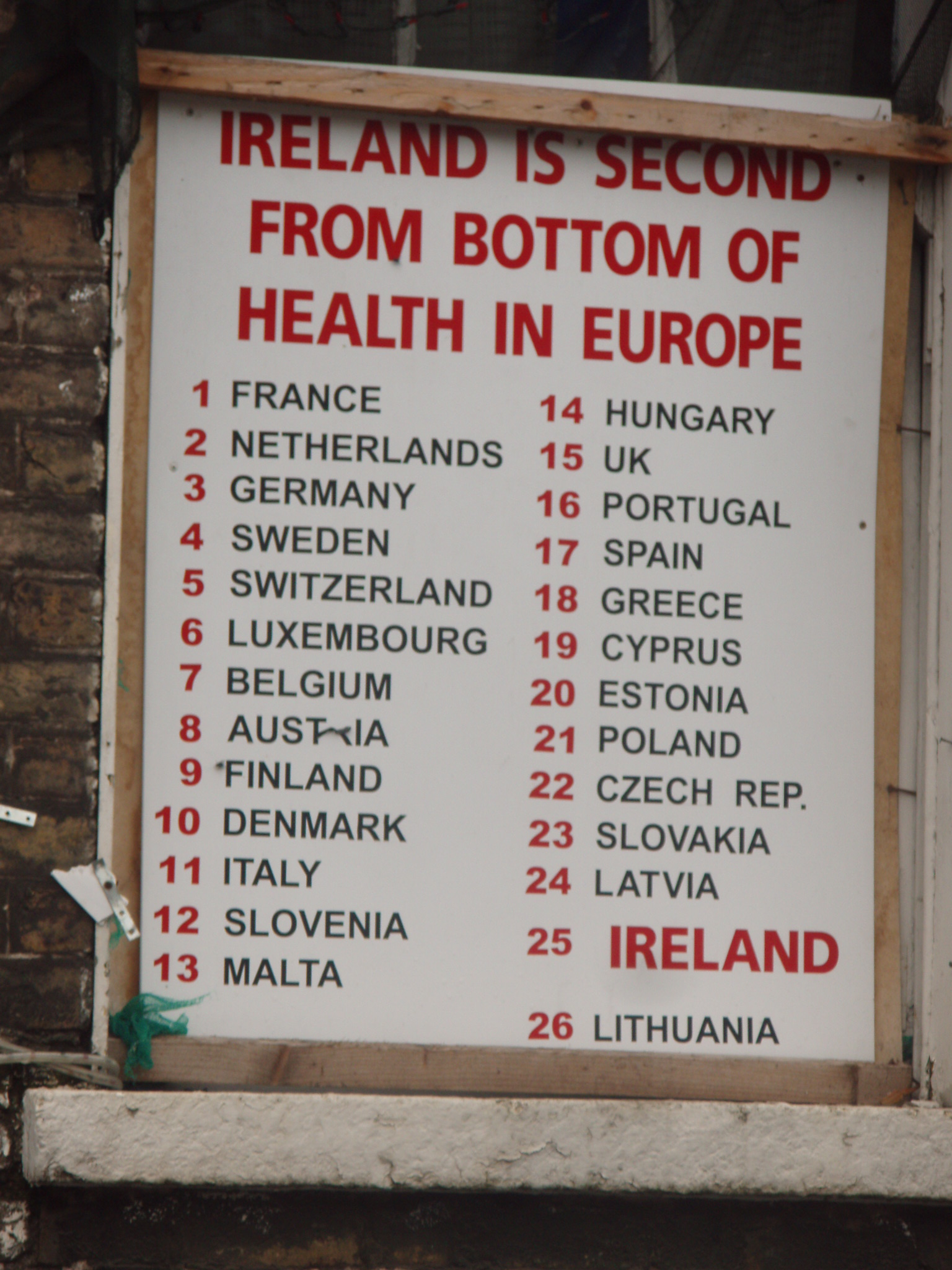 Ireland is second from bottom of health in Europe. Poster in Dublin 2007